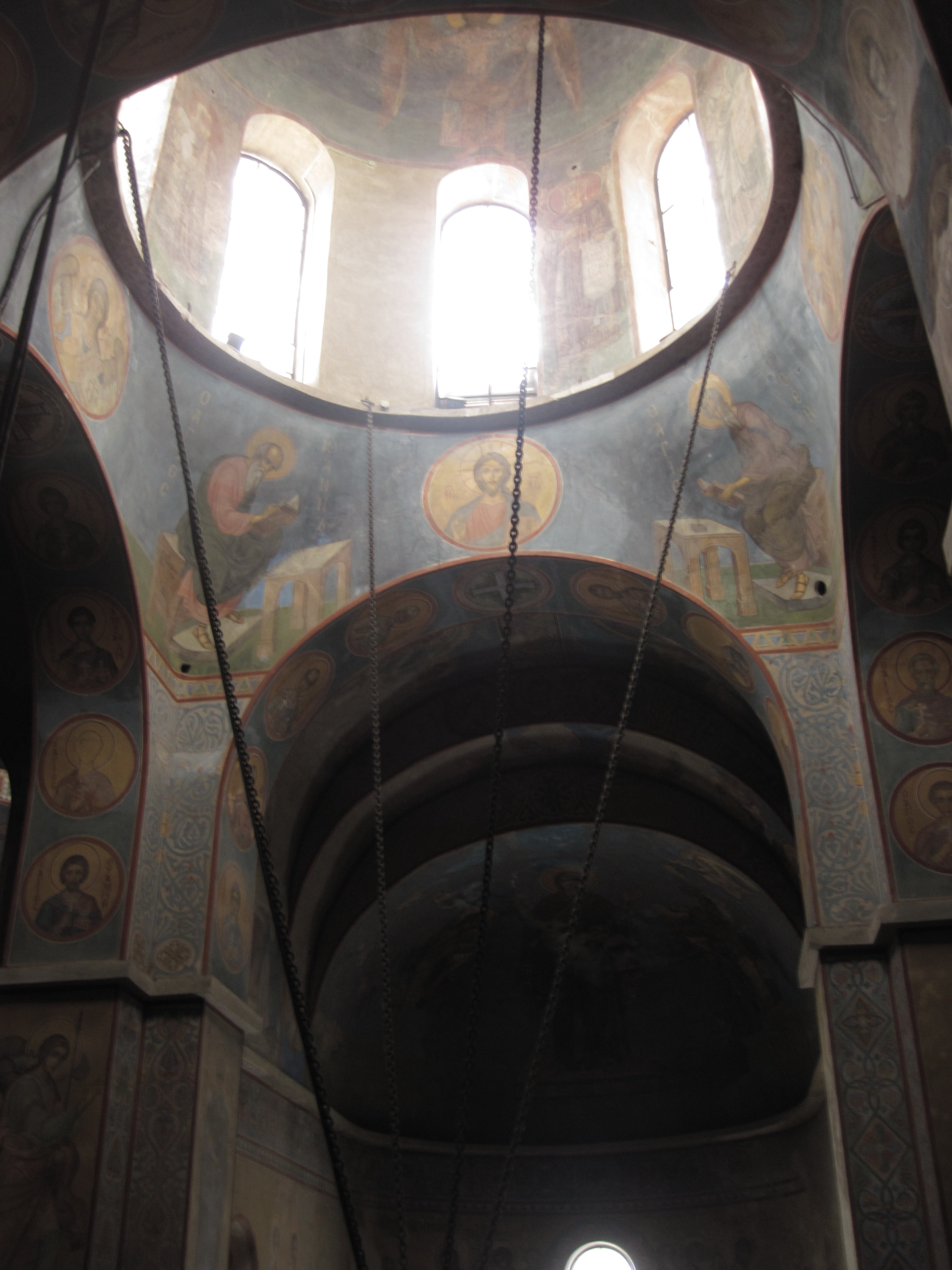 St Sophia Cathedral in Veliky Novgorod